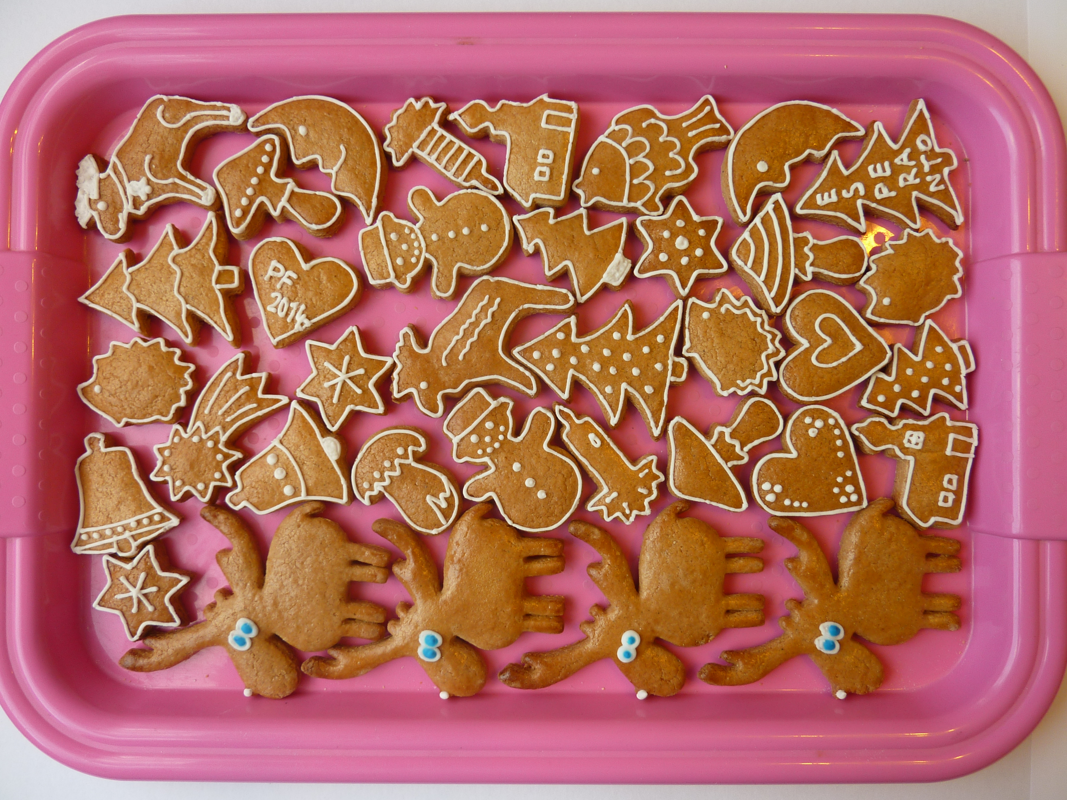 Christmas gingerbread cookies decorated with royal icing (Czech Republic, 2013)